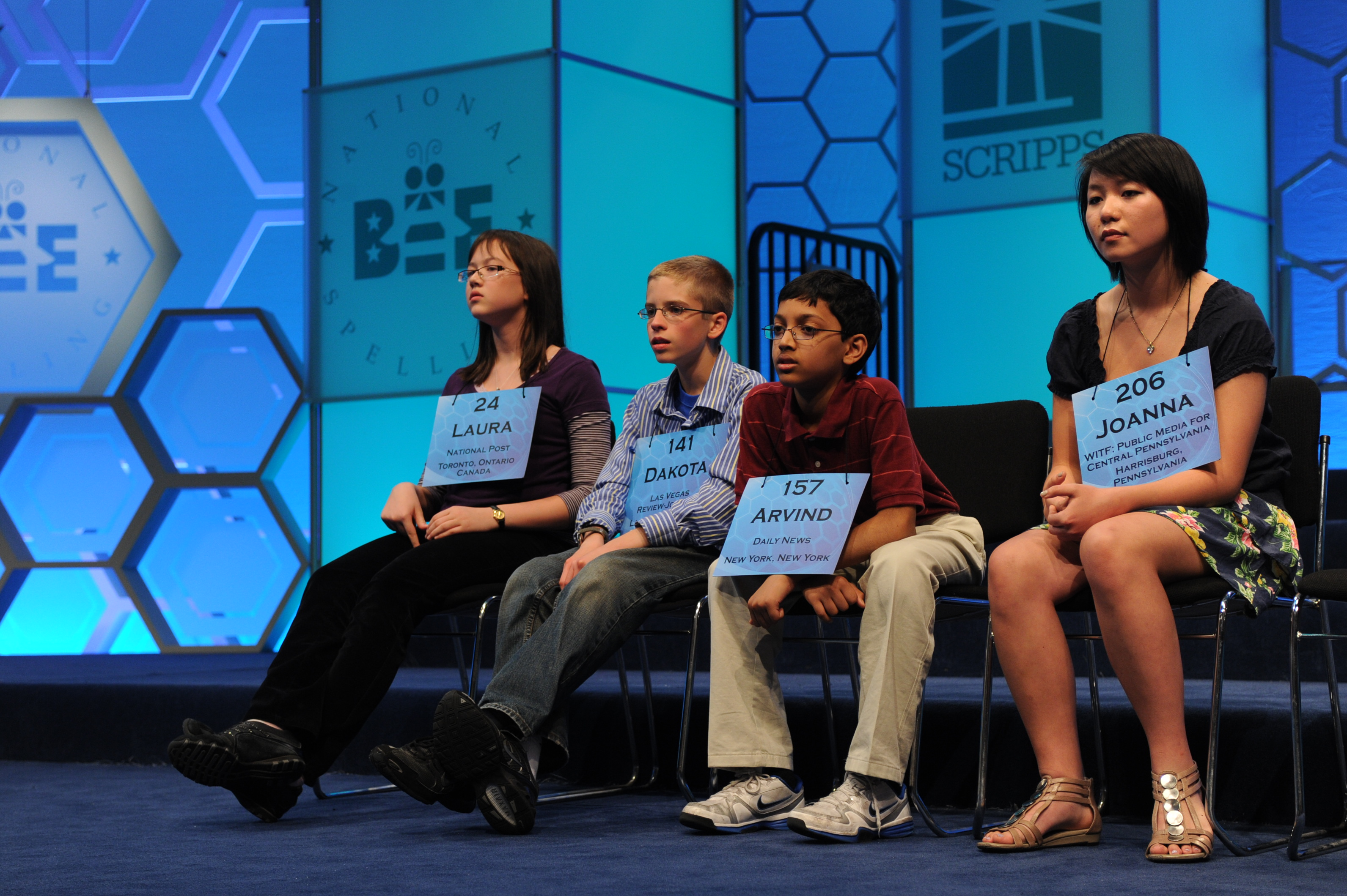 Some of the contestants in the Scripps National Spelling Bee, 2011